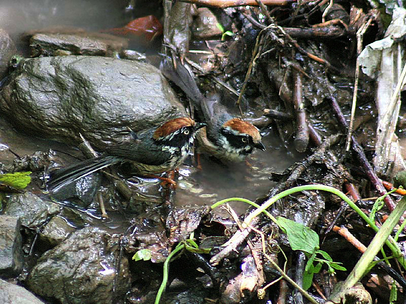 Black-throated Tit Aegithalos concinnus Bathing at 6000 ft. in Kullu- Manali District of Himachal Pradesh, India.